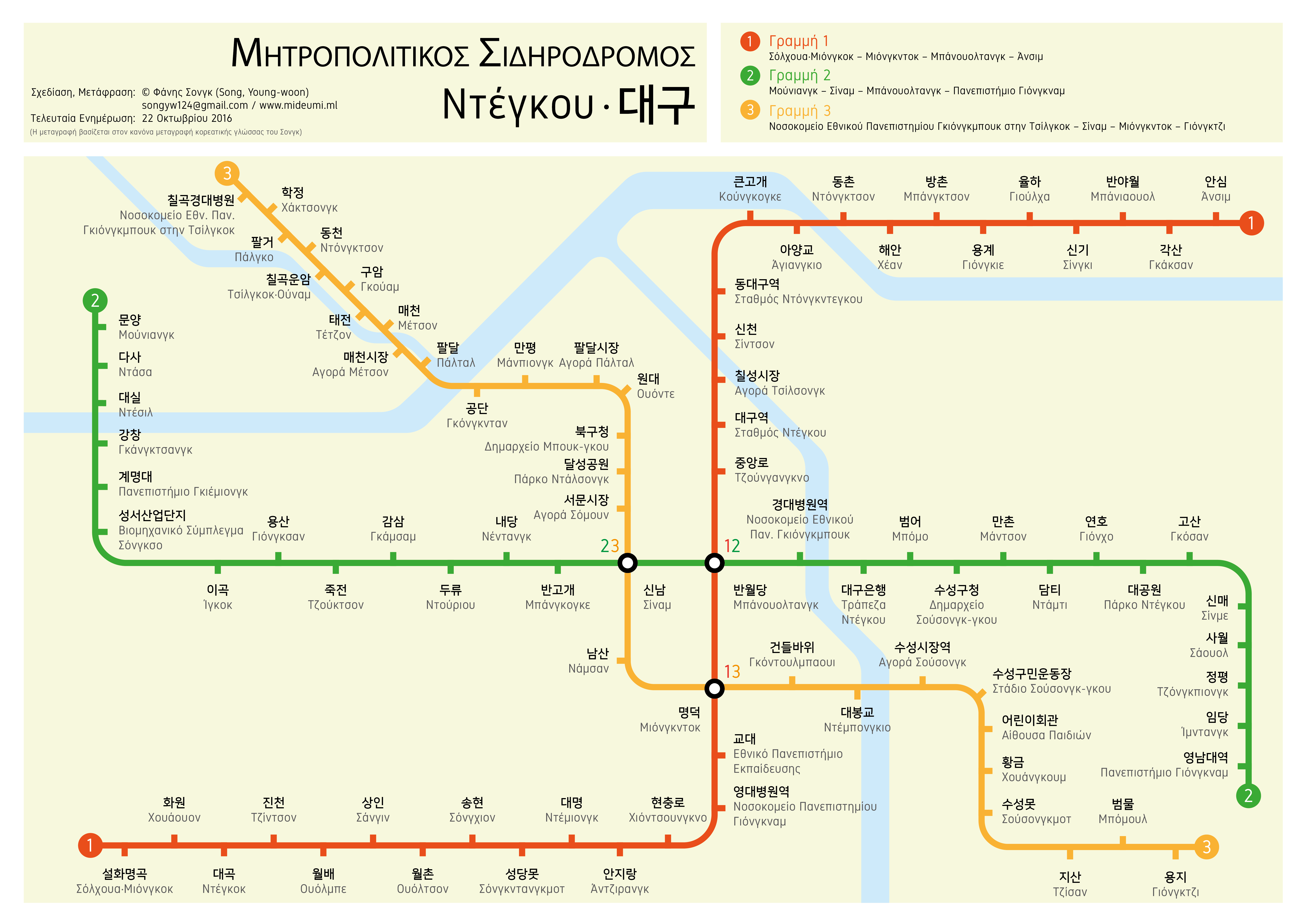 Route map of "Daegu Metro" of the city of Daegu, South Korea. Translation of names of the stations in Greek, and all the transcription based on the transcription rule on Korean language into the Greek alphabet of Song.